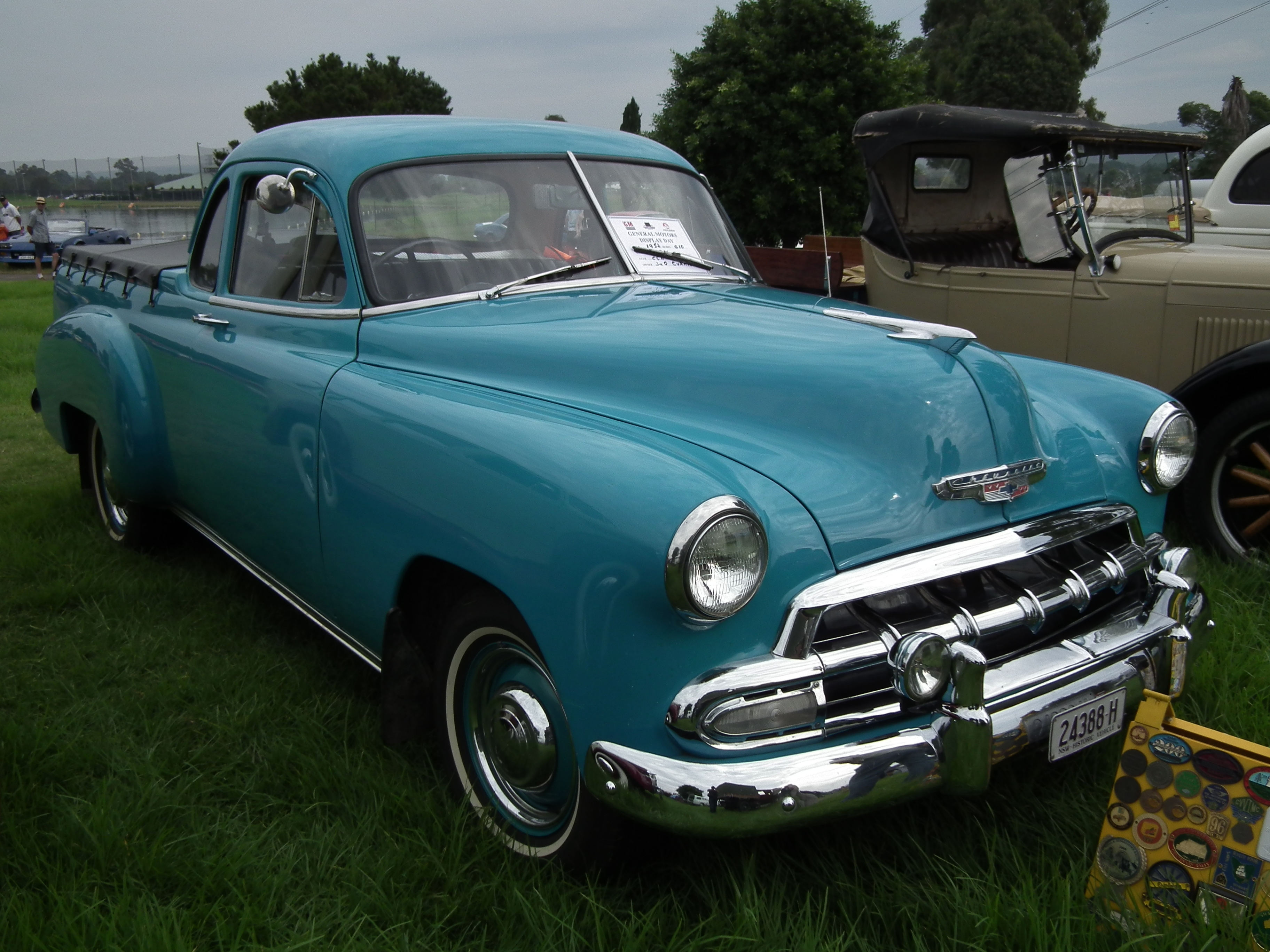 1952 Chevrolet 52-1206B coupe utility. Designed and built by Holden. Taken at the General Motors Display Day, held in the grounds of Penrith Panthers Club, Penrith NSW.